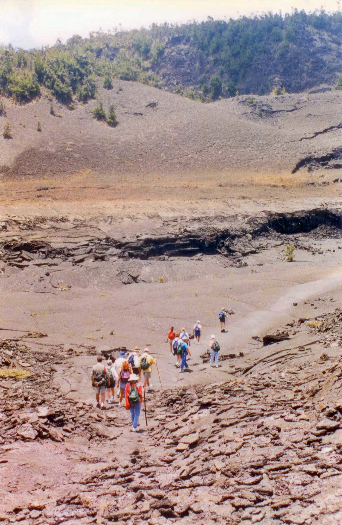 Image of tourists trekking along the bottom of Kīlauea Iki, Hawaii, United States. Image scanned in from 35mm print.